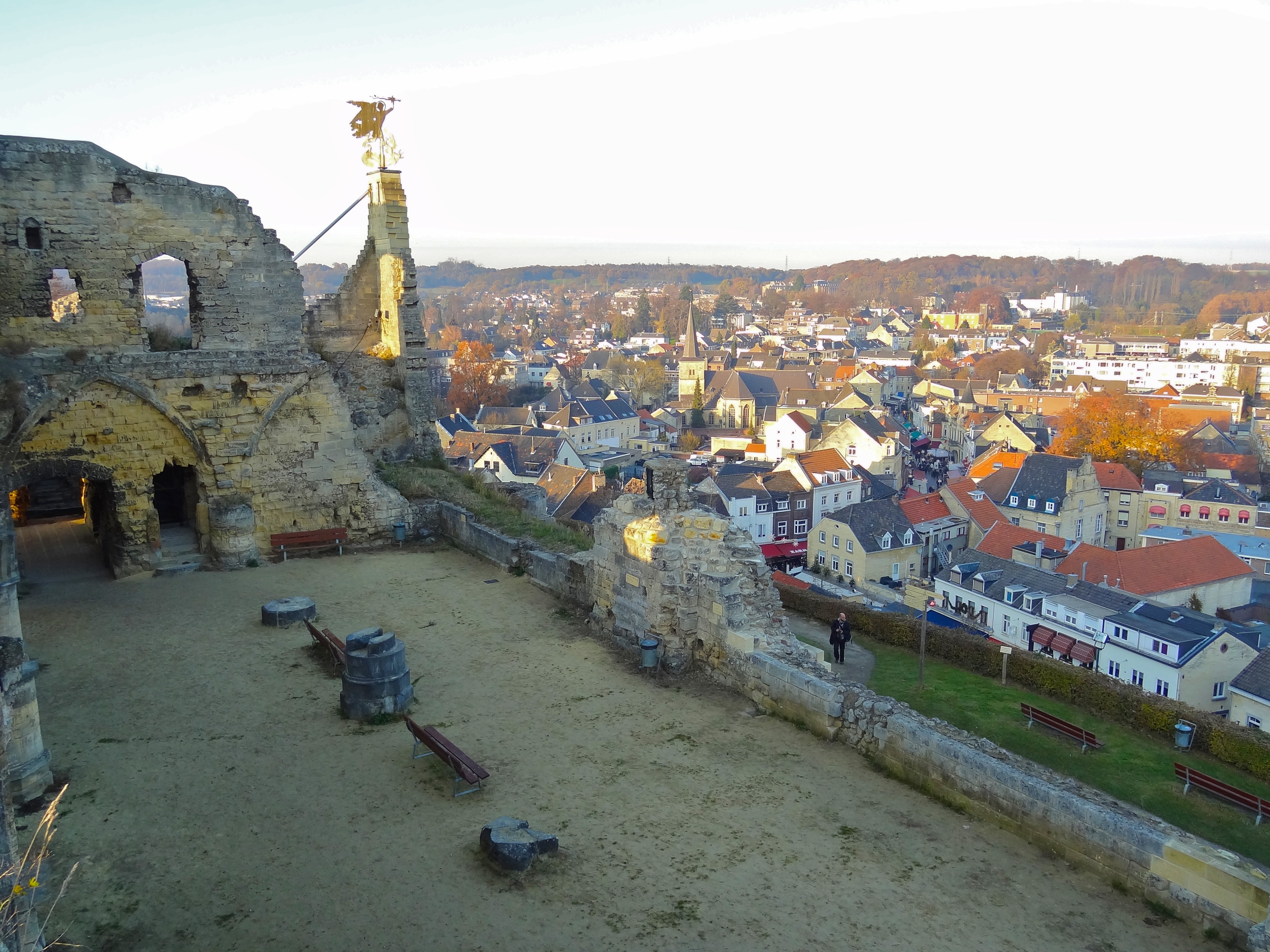 Castle Valkenburg - View over Valkenburg aan de Geul